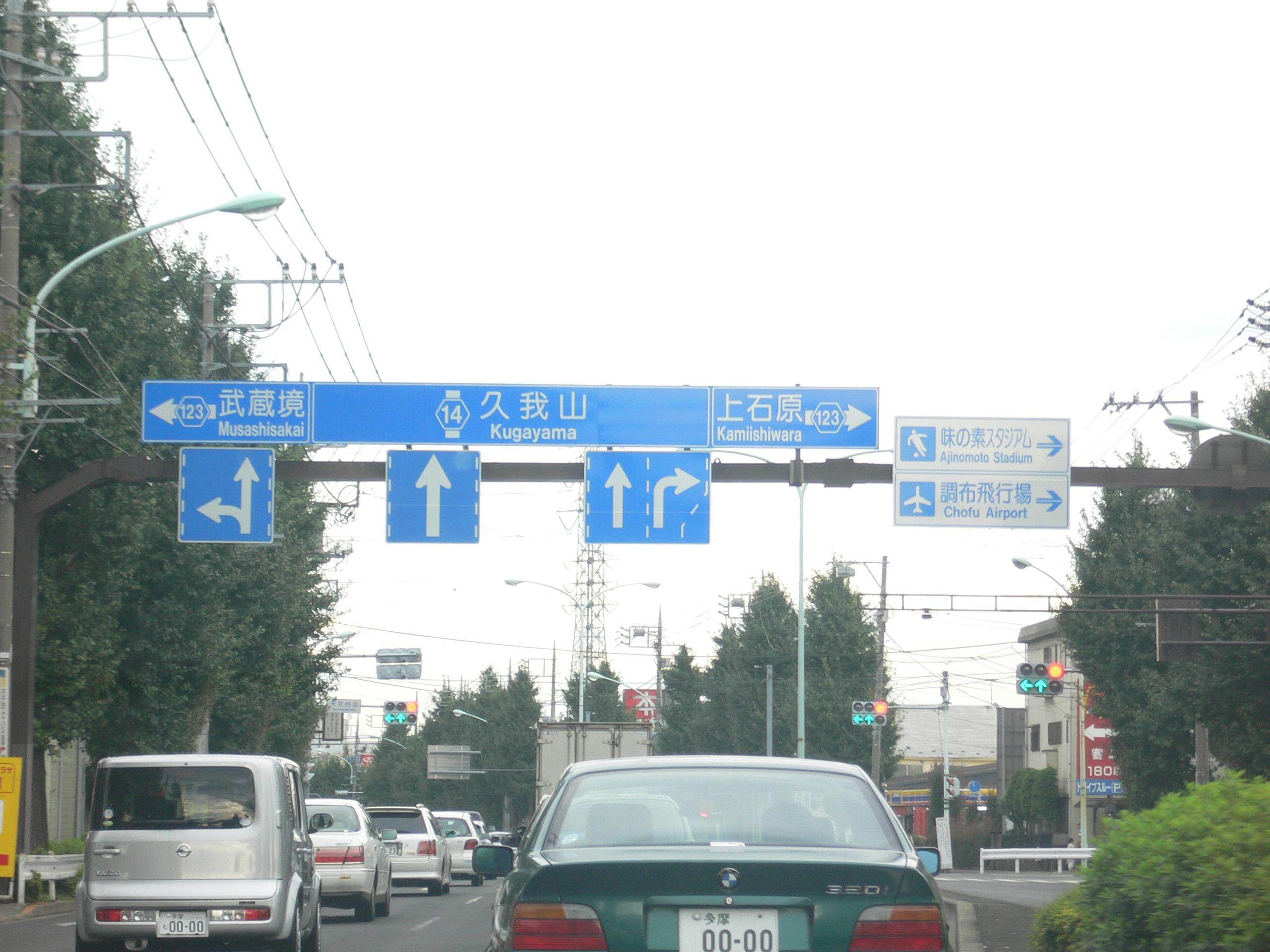 Tokyo metro road no.14 (東八道路), Fuchu C, Tokyo M.